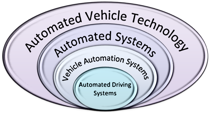 An automated driving system is necessary for automated driving. This is a combination of individual control systems (aka automated systems) referred to as vehicle automation systems. Any component of this system can legitimately be referred to as automated vehicle technology. This figure shows this hierarchy.